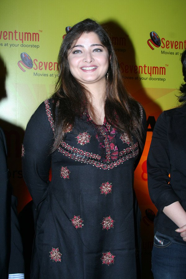 Vasundhara Das, with Soha Ali Khan at the 70MM celebration of their 70000 customers.